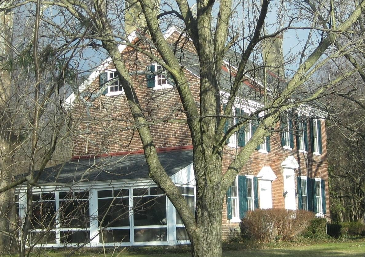 The Benjamin Clark House On the east side of the Woodbury-Glassboro Road, Deptford Township The west section of this old brick home is the oldest, having been built in the late 18th century. The east section has a stone insert, dated "1804. Because of Benjamin Clark's patriotic activities during the Revolutionary War, his home was raided several times by the British.